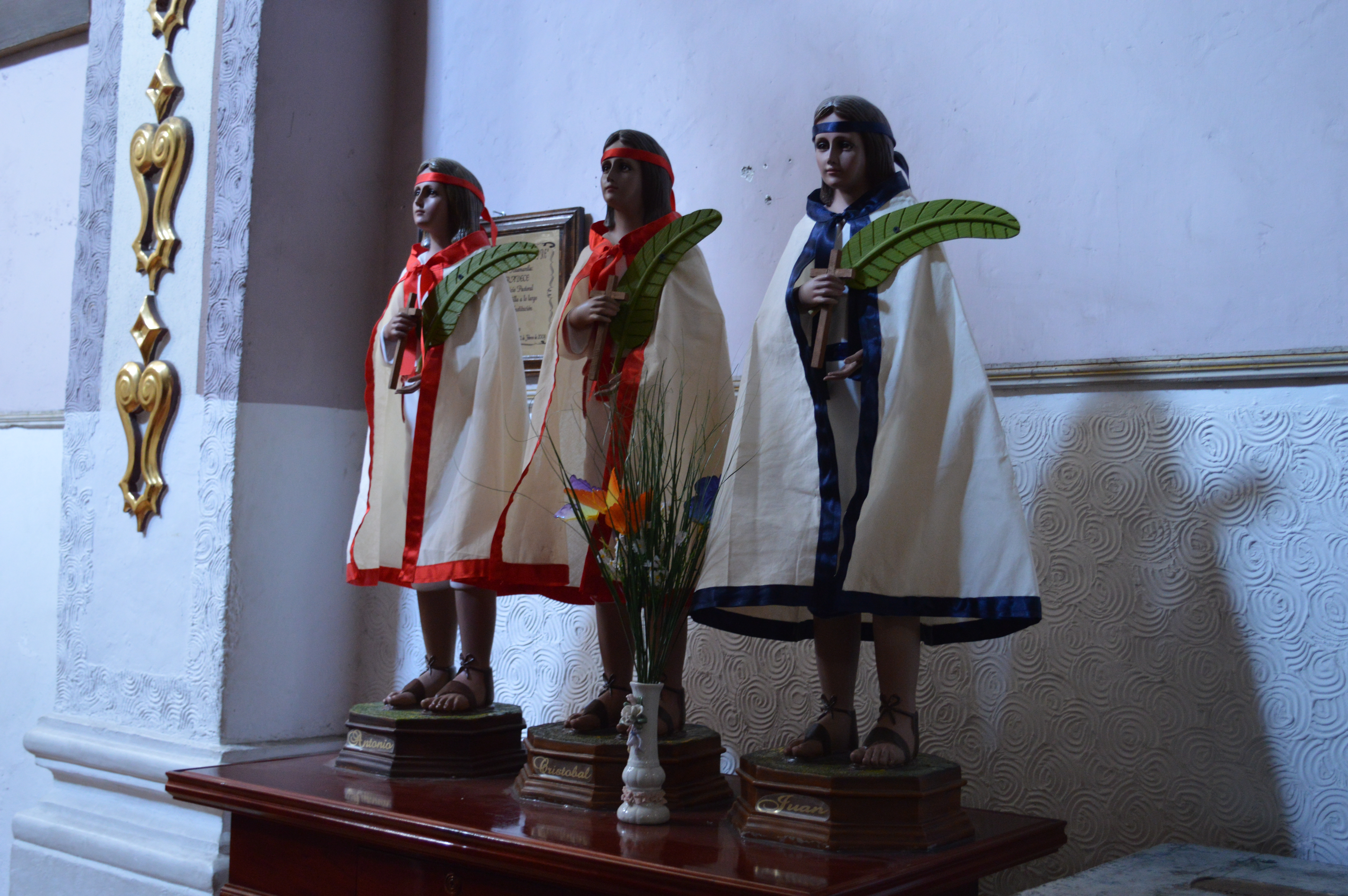 Images of Cristóbal, Juan and Antonio at the parish of San Luis Obispo in Huamantla, Tlaxcala, Mexico